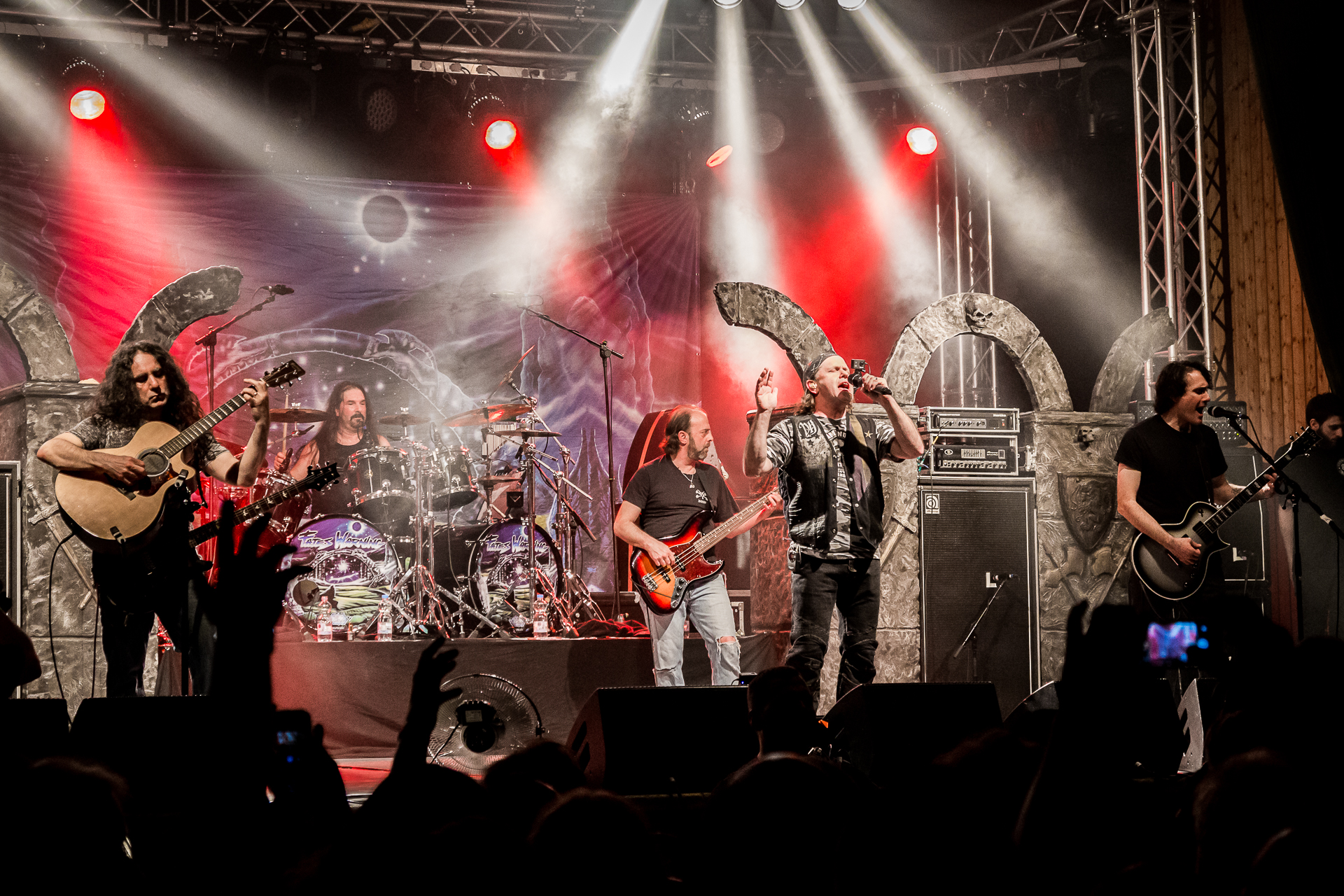 Fates Warning during the Keep It True Festival (Awaken The Guardian album 30th Anniversary Show) in Lauda-Königshofen, Germany (2016.04.30)